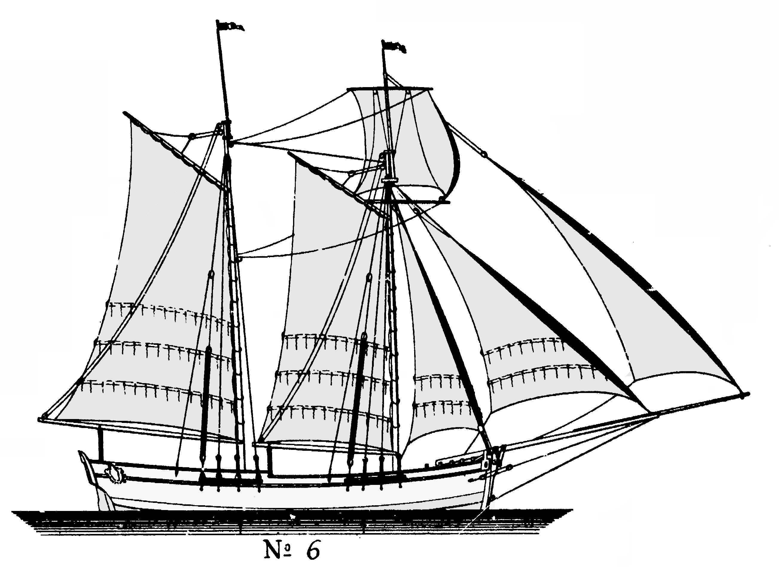 Small Schooner